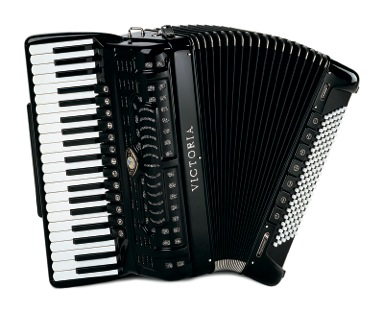 Professional Piano Accordion